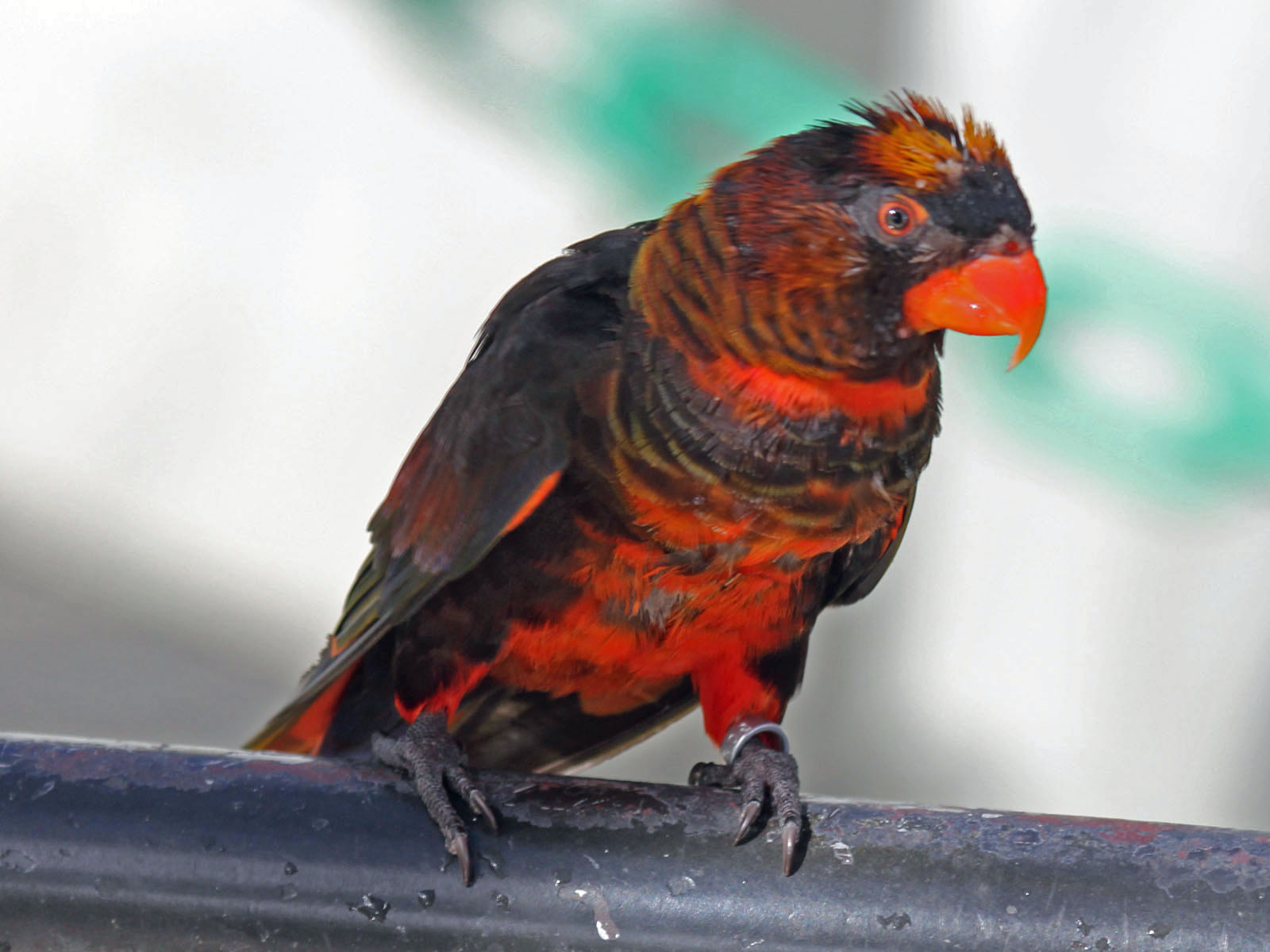 Dusky Lory (Pseudeos fuscata) - Butterfly World, Florida